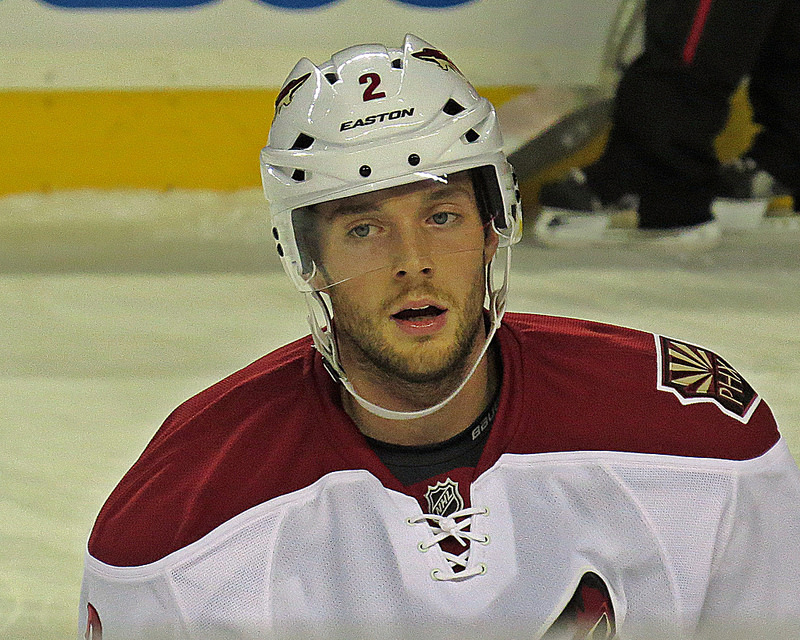 David Rundblad whilst with the Phoenix Coyotes during the 2013-14 NHL season.